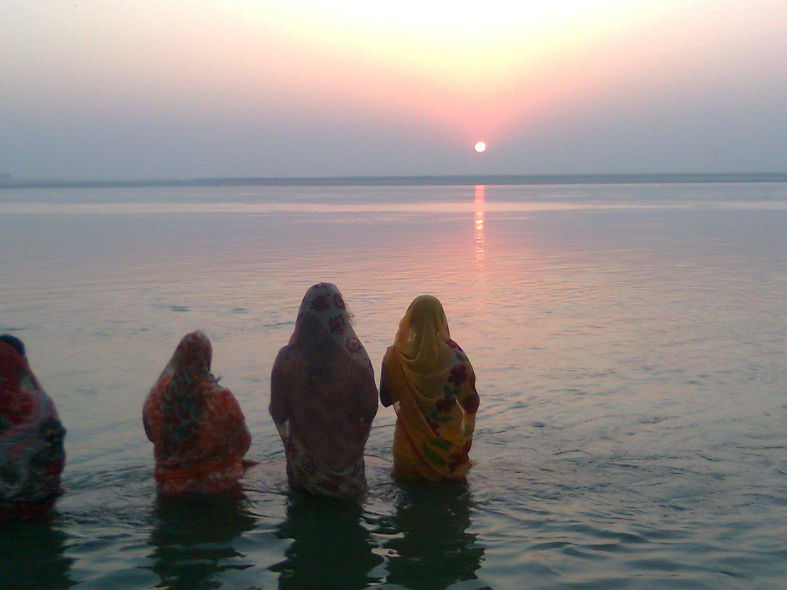 This place is heart of all the indians. Specially when Mahakumbh mela is there, crores of people come this place. This place is known as SANGAM, a place where three pious rivers Ganga, Yamuna and Saraswati meet.